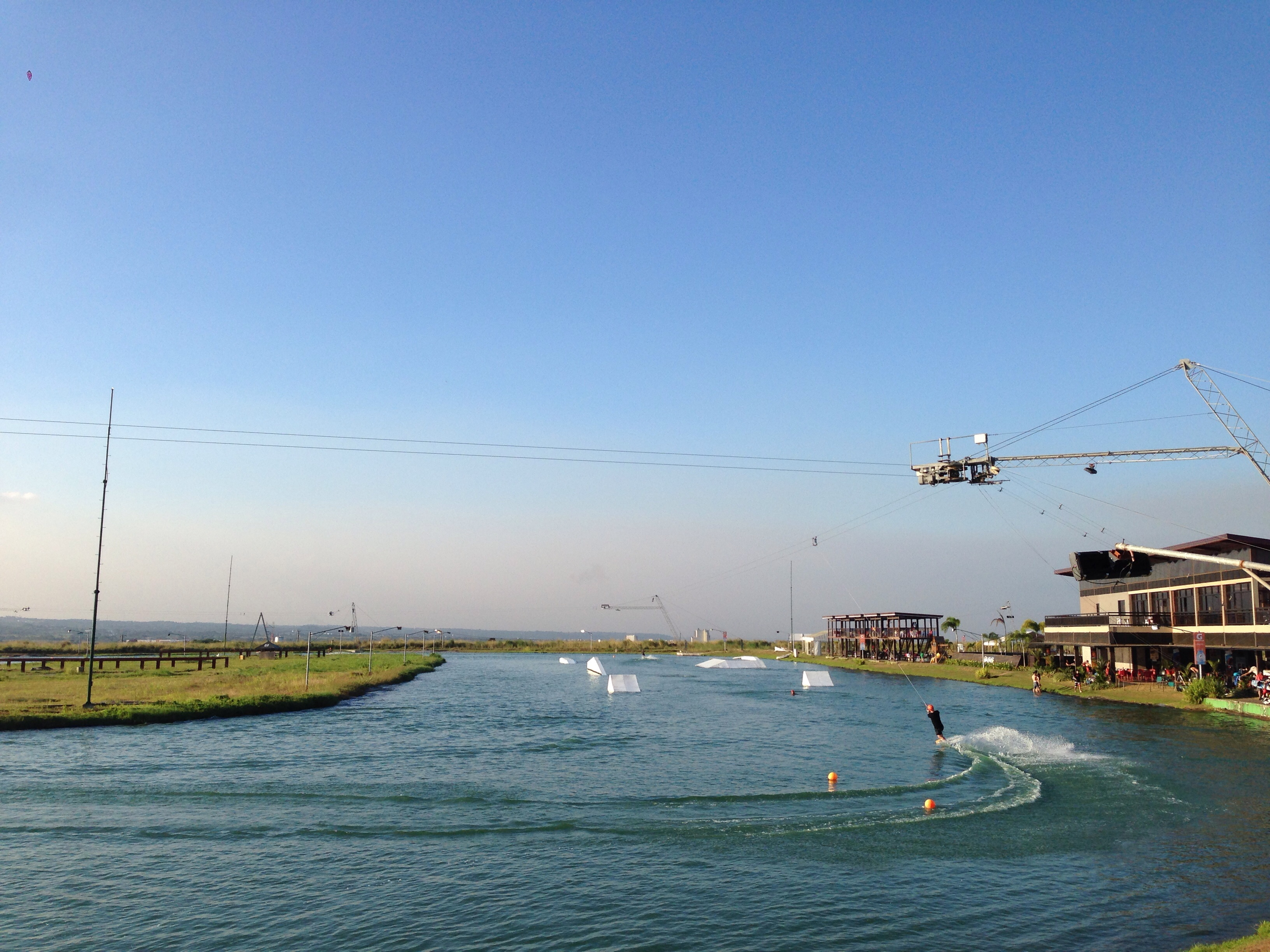 Republ1c Wake Park in Nuvali (Calamba, Laguna), Philippines